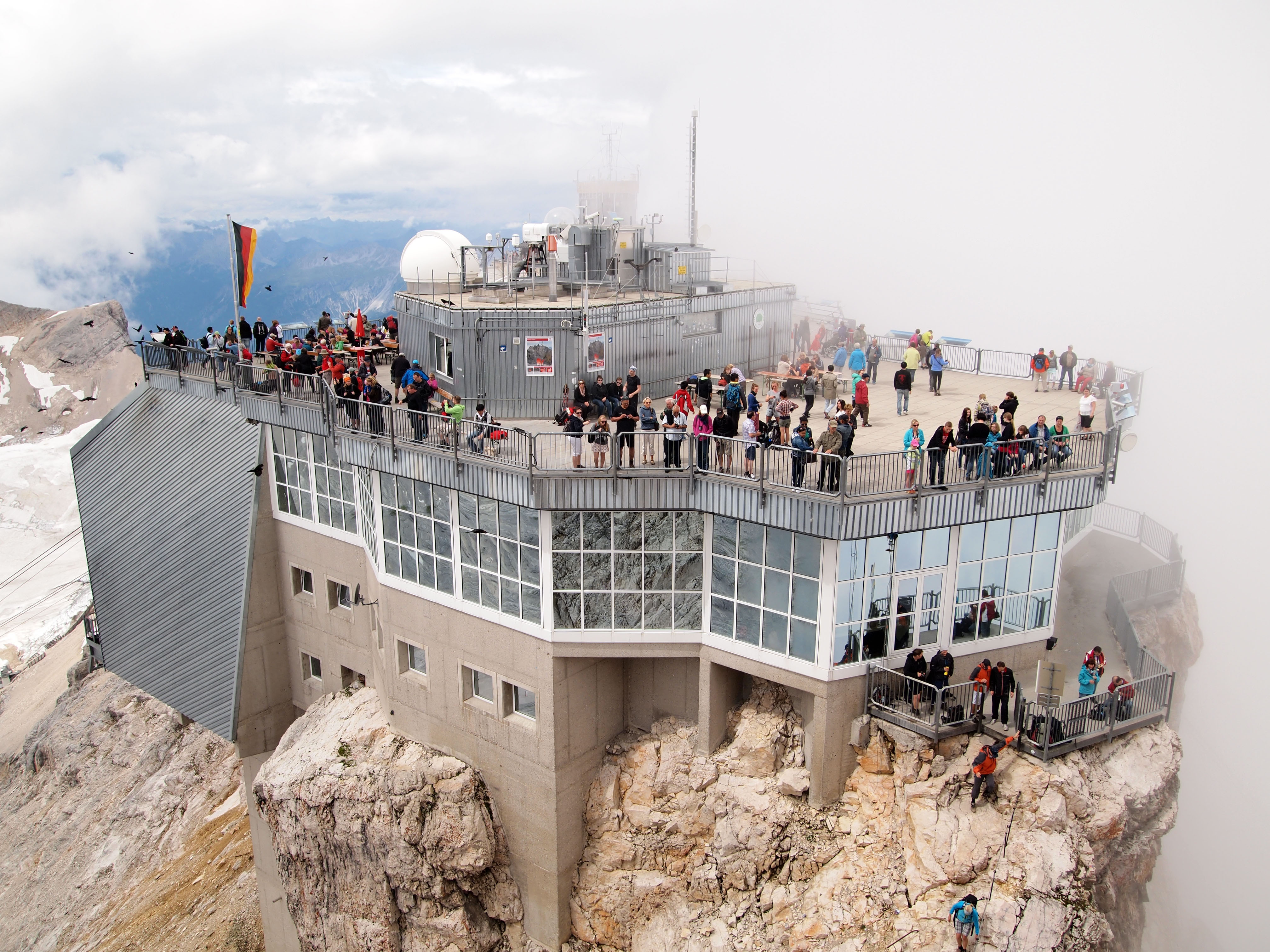 Building at the mountain Zugspitze. This photograph was taken with a Olympus E-PL1.